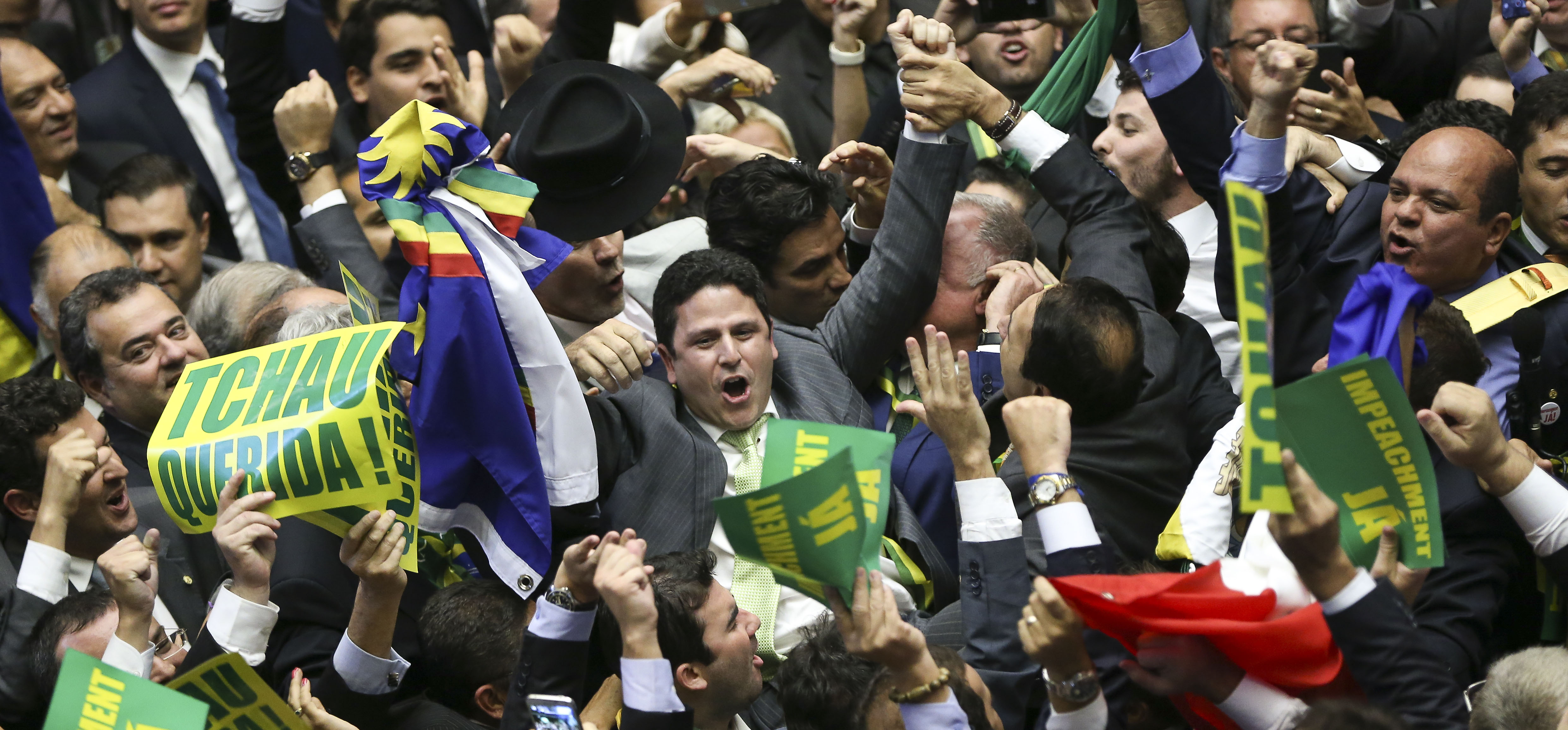 Brazilian deputy Bruno Araujo